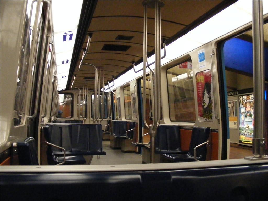 Inside a MR-73 train of the Montreal métro.